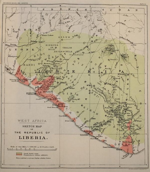 Sketch Map of the Republik of Liberia